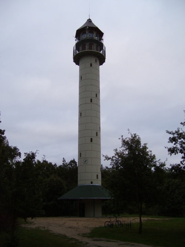 Tower on the pick of Dziewicza Gora